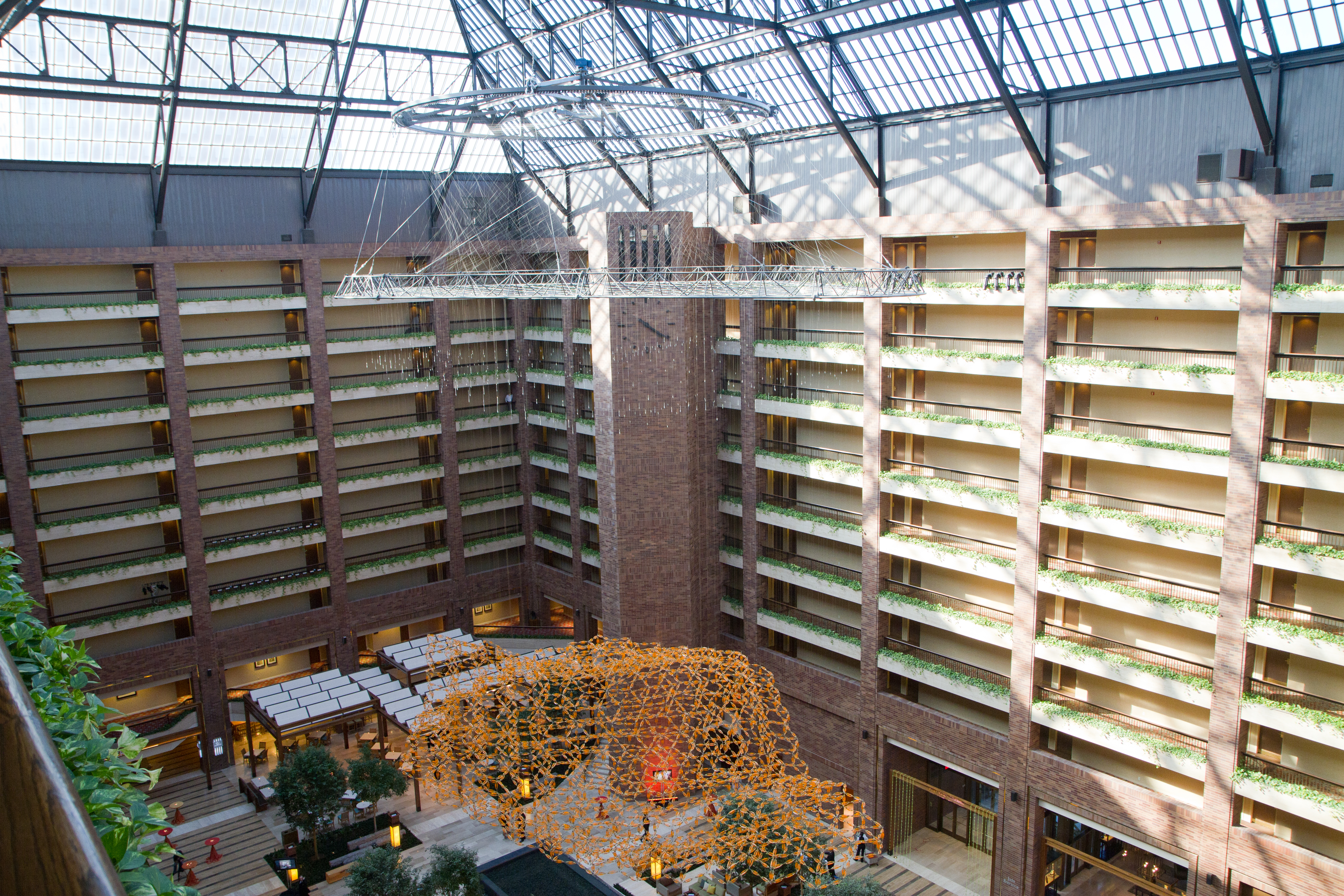 Reuben Margolin's "Nebula" kinetic art work, installed in the atrium of the Anatole Hilton Hotel in Dallas, Texas.